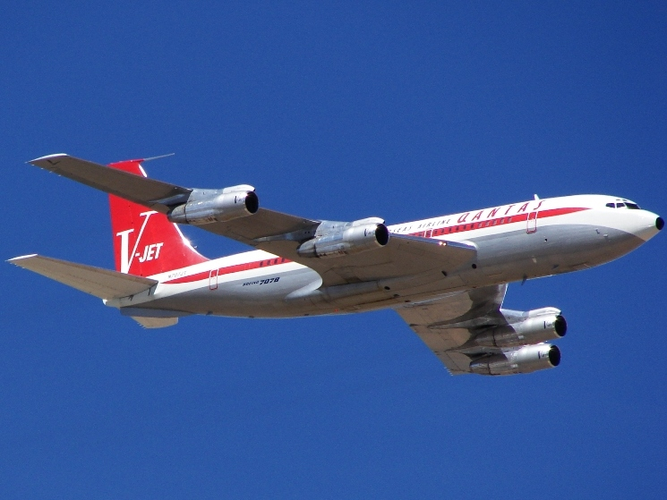 John Travolta's "baby", his own Boeing 707-138B "Jett Clipper Ella". Registration number: N707JT